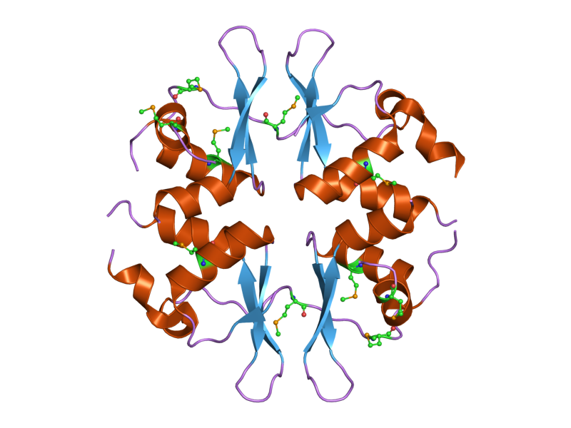 Cartoon representation of the molecular structure of protein registered with 2nye code.